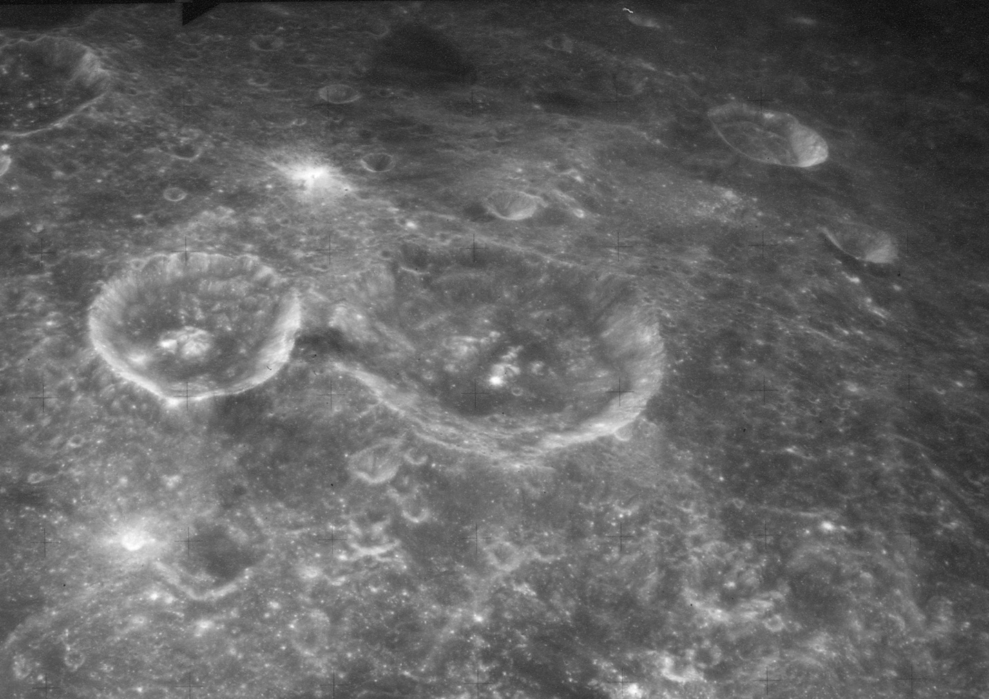 Oblique view of Schubert (center), Back (left), Schubert F crater (dark triangle at top), and Banachiewicz B and Knox-Shaw are in upper right. Facing west